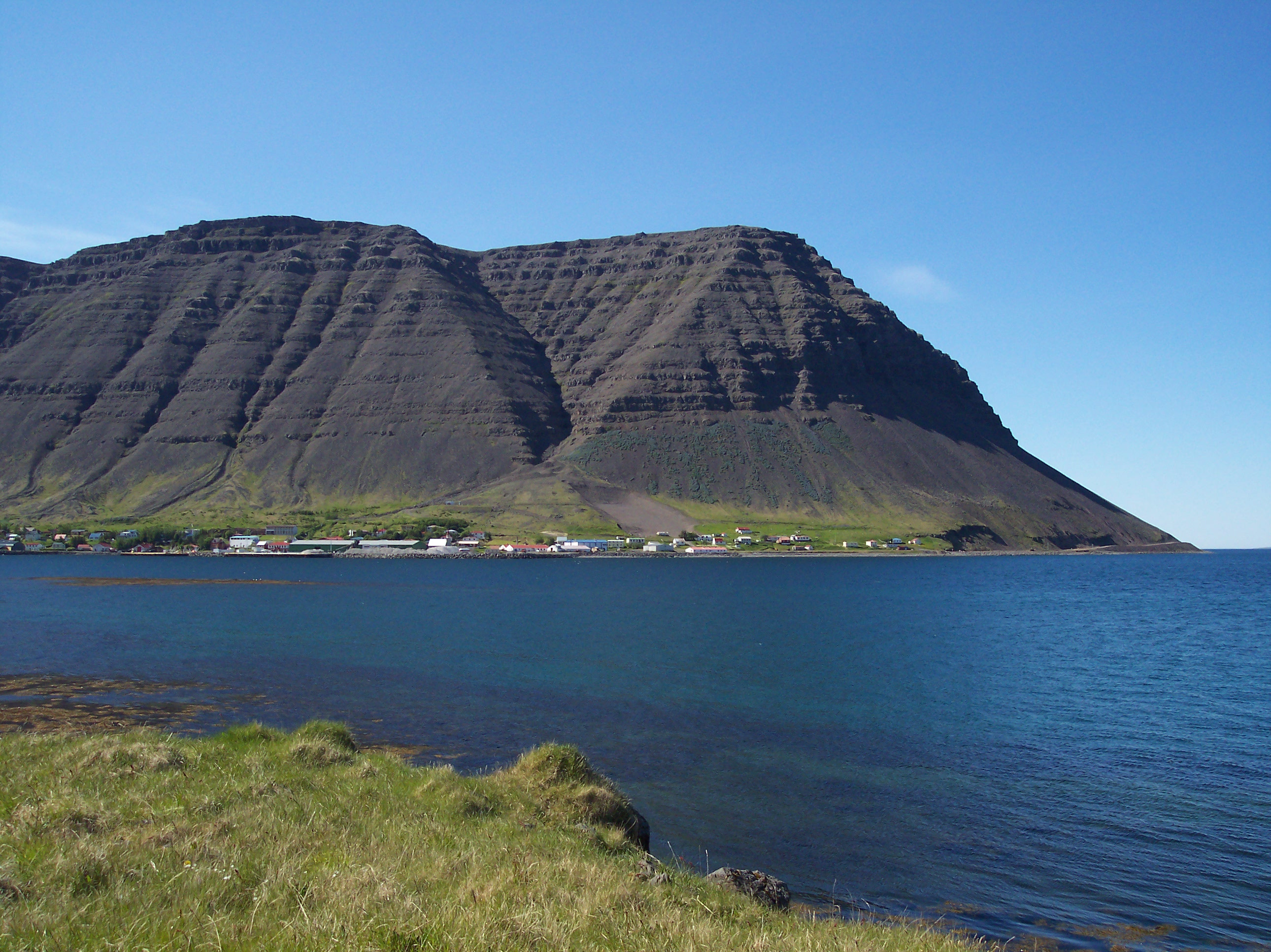 Bíldudalur, seen from east.